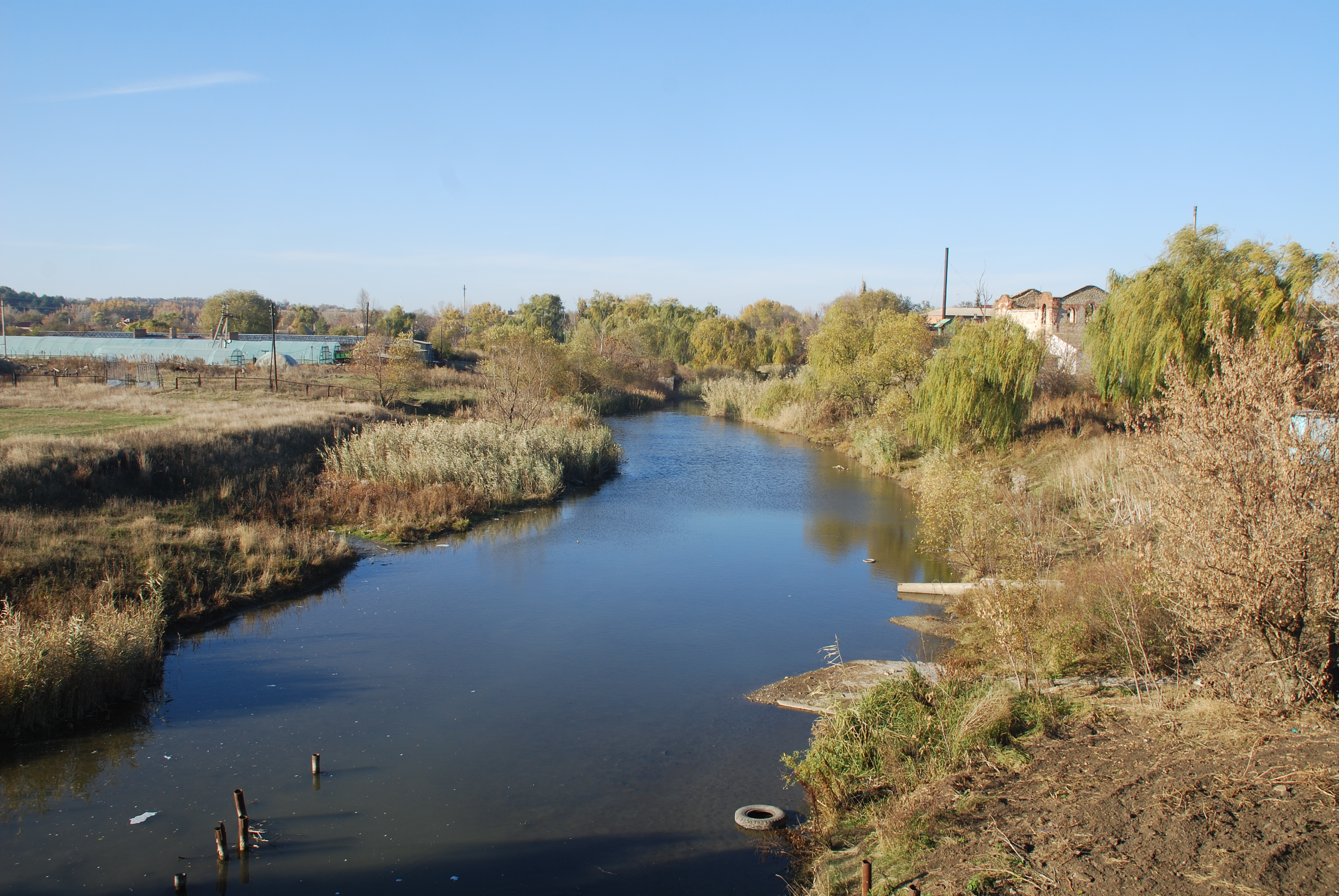 Bolshoi Nesvetay River near Rodionovo-Nesvetayskaya.